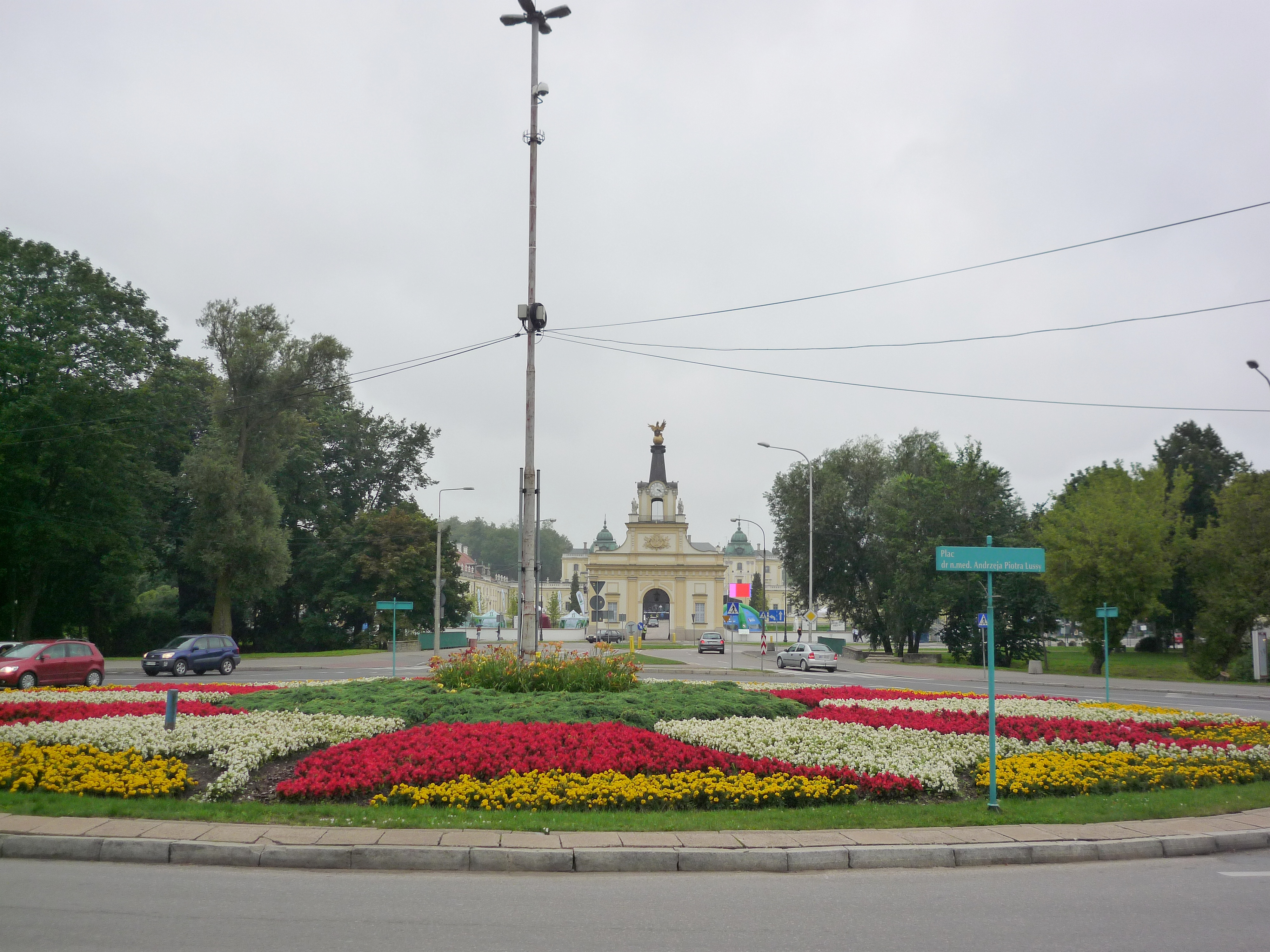 Białystok - roundabout (A. Lussy square) and a gate of Gryf (in the background)